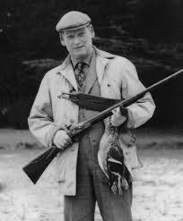 W. Keith Neal with Boza and Probin Gun at Bishpstrow House, Wiltshire, 1969